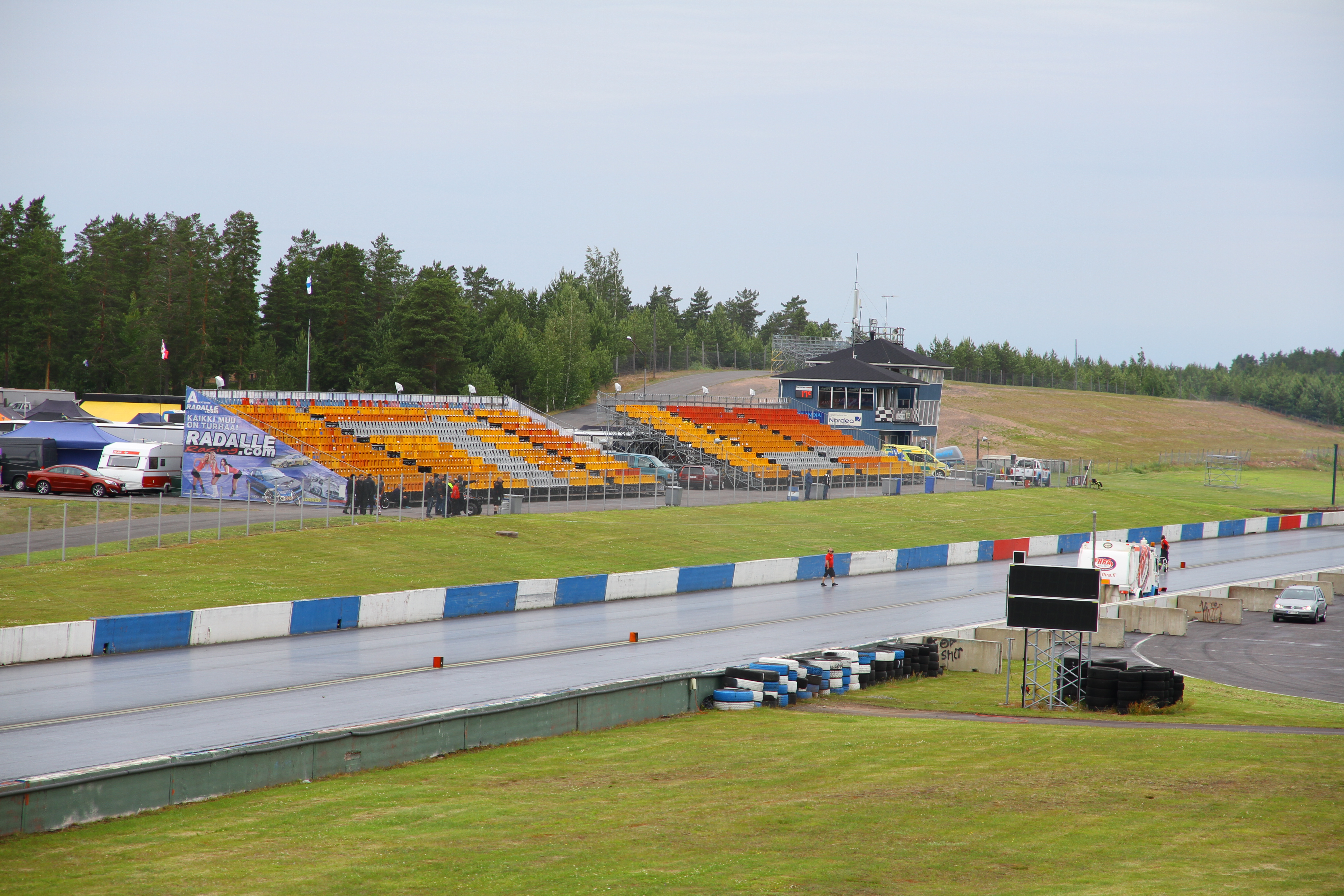 FHRA Kamasa Drag Race Week at Alastaro Circuit, Finland.